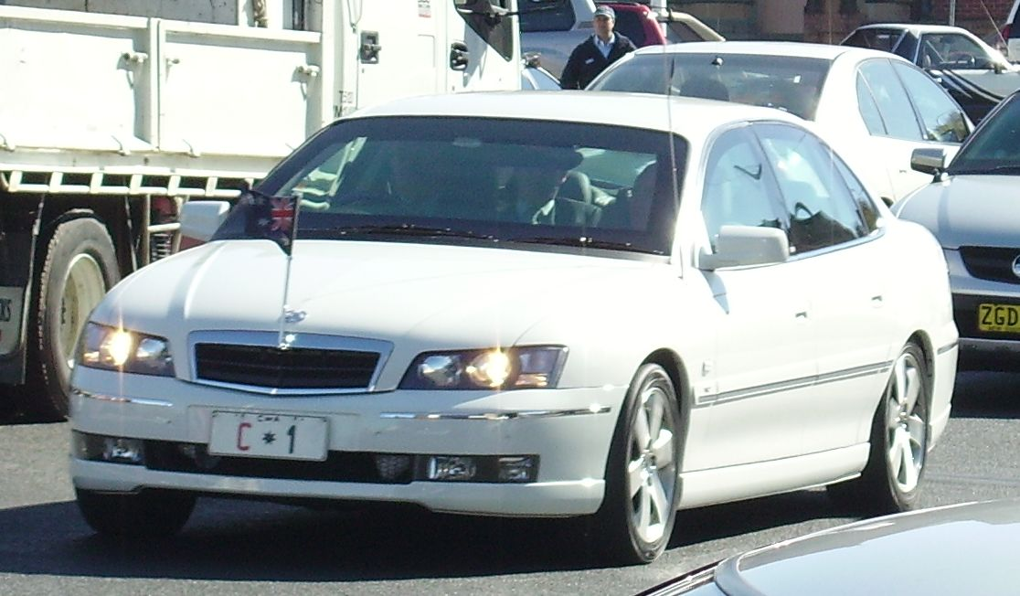 Then Australian Prime Minister John Howard arrives at a Liberal Party luncheon in Bathurst, New South Wales in a 2004-2006 Holden WL Caprice.